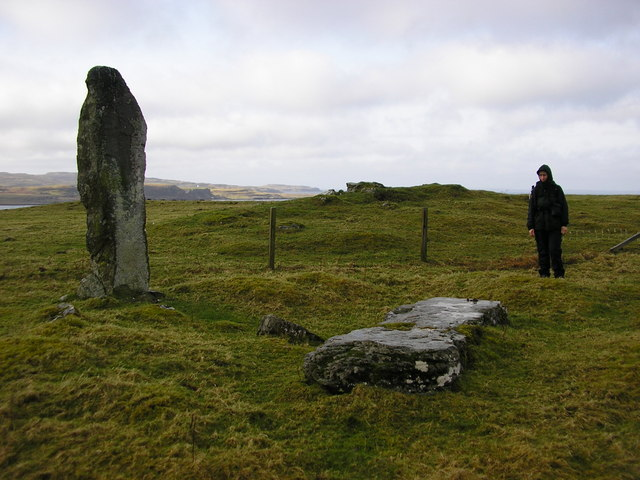 Prehistoric stones, Quinish One standing, one fallen